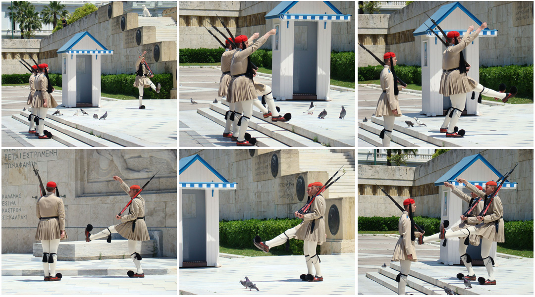 Hellenic Parliament, Athens, Greece. Evzones changing the guard in front of the Tomb of the Unknown Soldier.